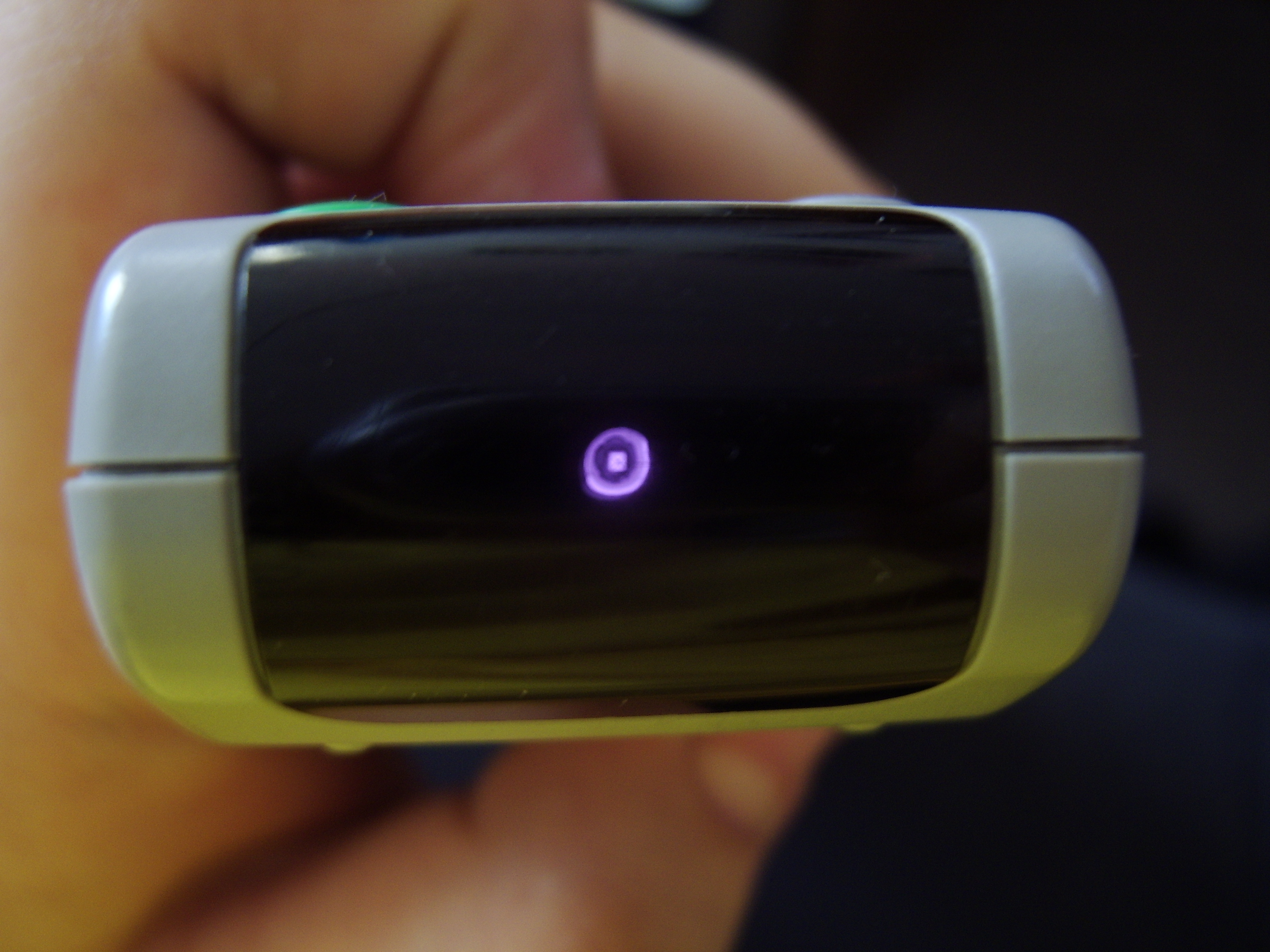 A remote control's infrared seen as near-infrared through a still image from the camera's CCD sensor.